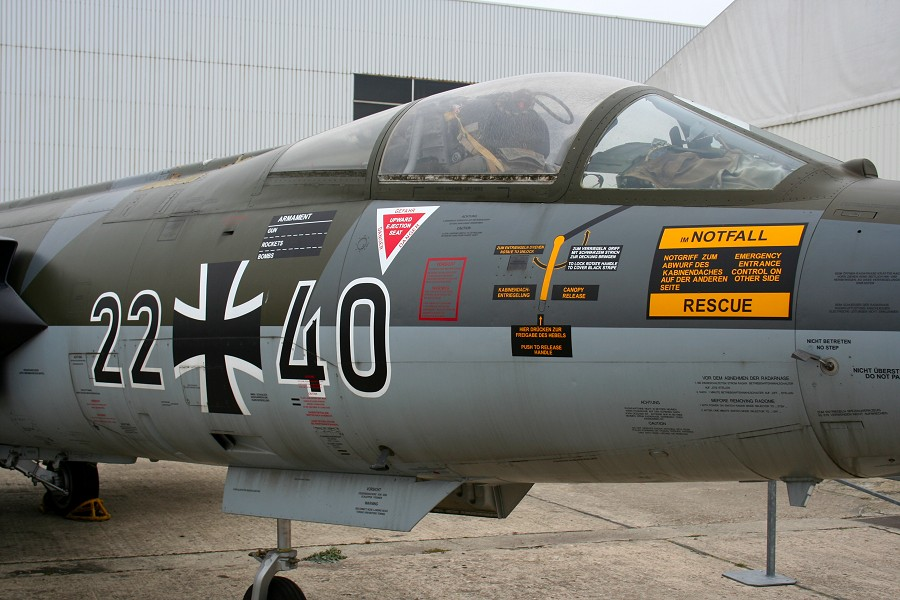 Former F-104G from Luftwaffe coded 22+40 displayed at the Musée de l'Air et de l'Espace, France